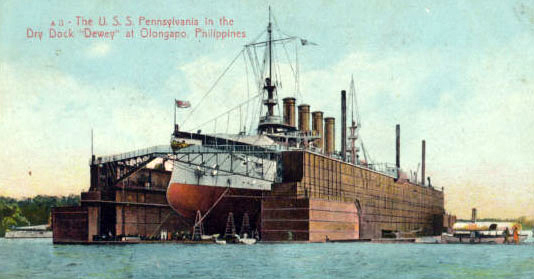 USS Pennsylvania (ACR-4) in Drydock Dewey Postcard was published between 1906 (when Dewey went on station in Olongapo, Philippines) and 1907 (when Pennsylvania ended her Asiatic service), and certainly before 1911 (when Pennsylvania was renamed Pittsburgh).